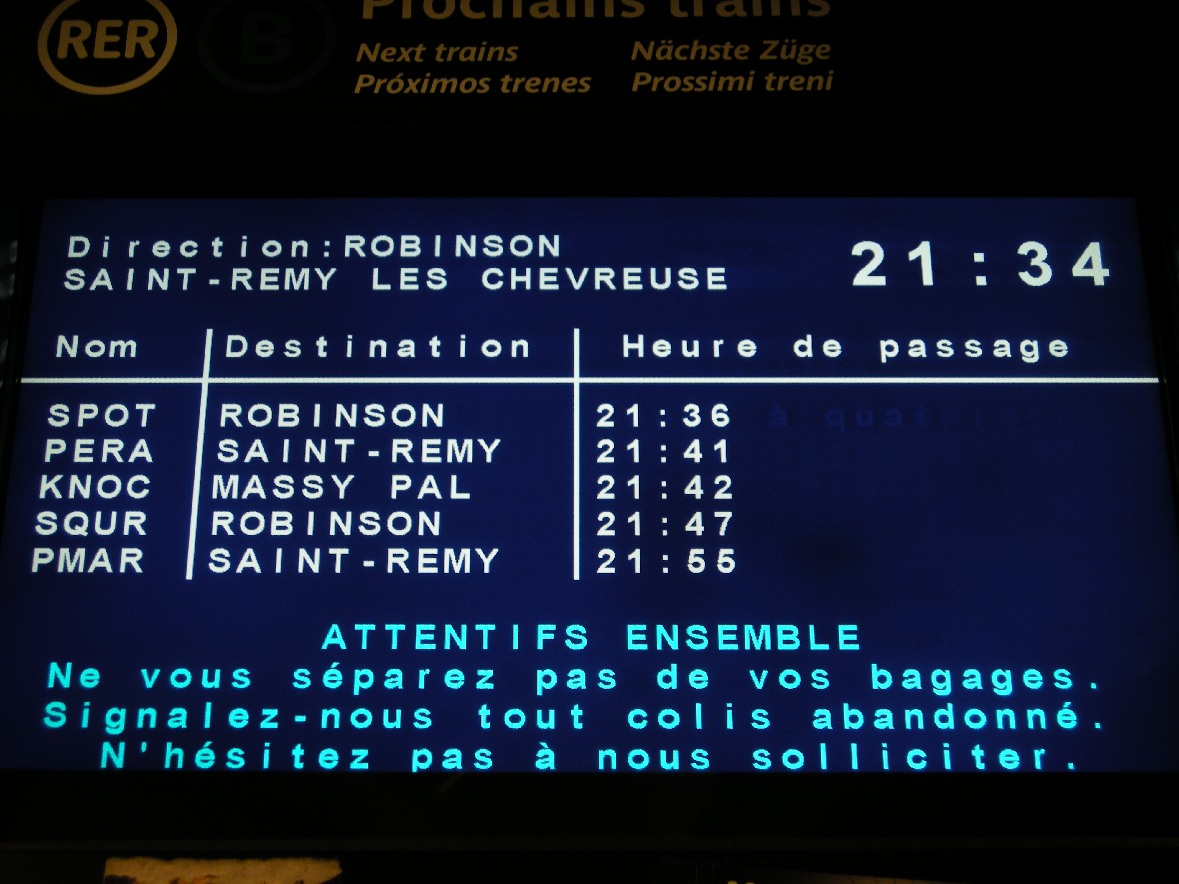 "SIEL" of RER B at Châtelet - Les Halles Station